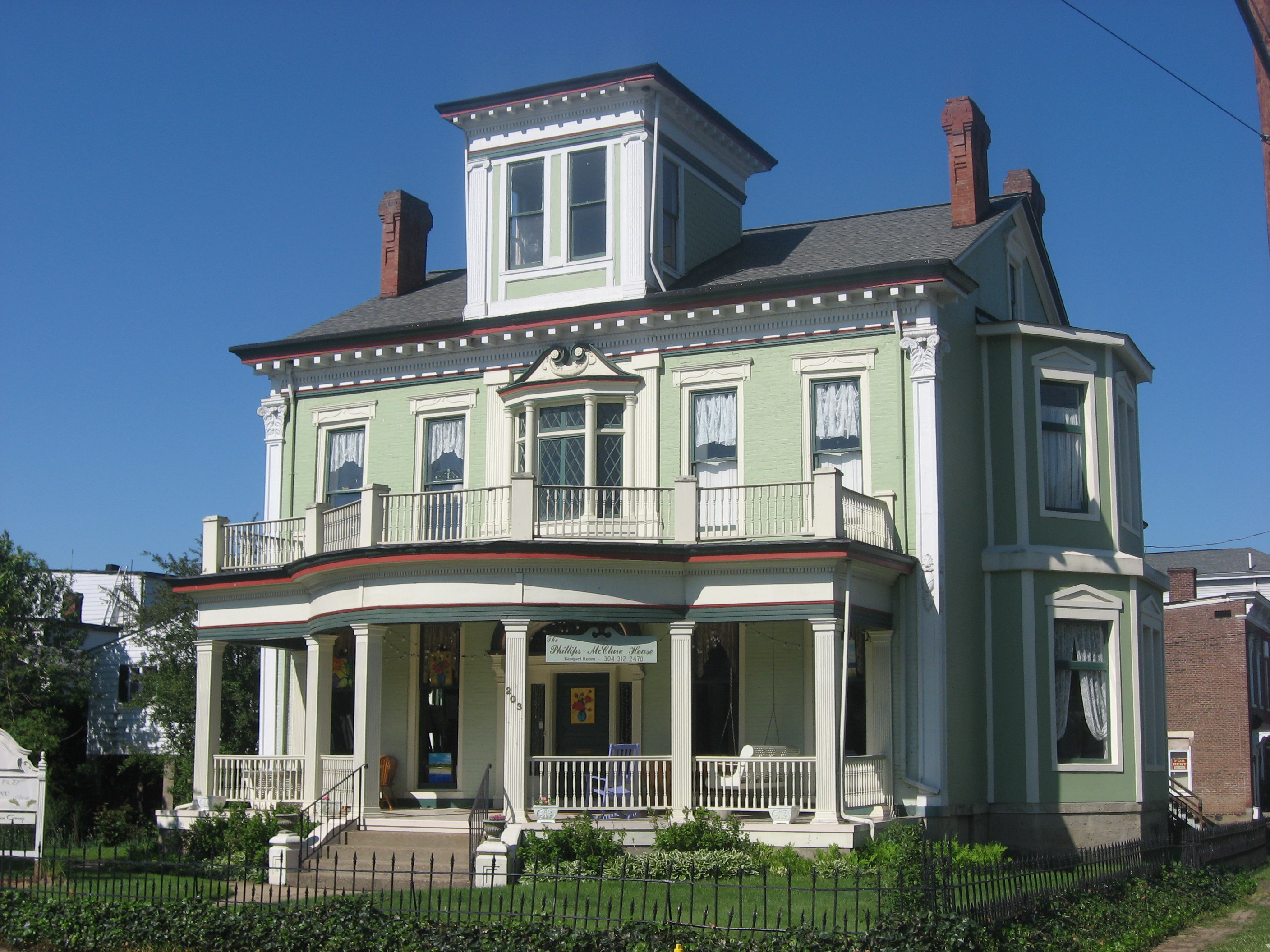 Front and northern side of the John McLure House, located at 203 S. Front Street on Wheeling Island in Wheeling, West Virginia, United States. Built in 1856, it is listed on the National Register of Historic Places, and it is a part of a Register-listed historic district, the Wheeling Island Historic District.